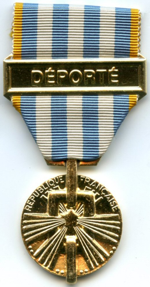 Political deportee's medal, 1940-45, France